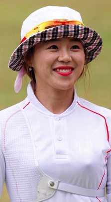 Chang Hye-jin , Incheon 2014